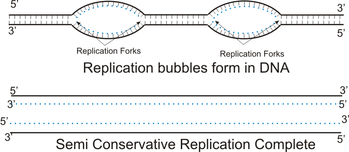 Illustration of 'bubbles appearing in DNA during replication